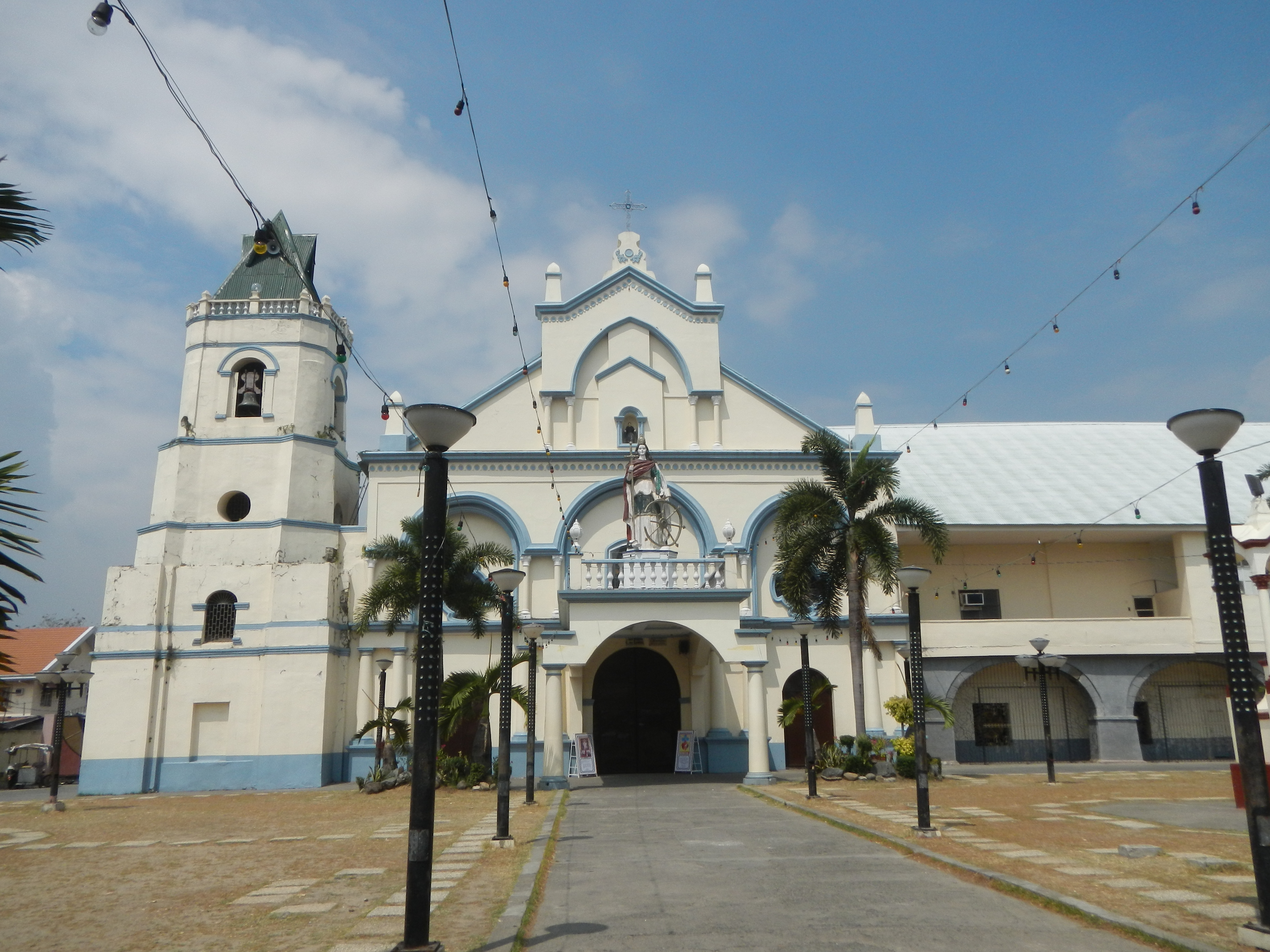 Barangay Poblacion, Arayat Institute Founded 1932 Poblacion, Arayat, Pampanga Hall and Park, New Life United Methodist Church (Arayat, Pampanga) Saint Catherine of Alexandria Church (Arayat, Pampanga) beside Paralaya, Martina of Rome Chapel, Mariano E. Samia Ancestral House (Paralaya, Arayat, Pampanga) Kabigting's Halo-Halo, Arayat, Pampanga (along the Poblacion-Plazang Luma-San Agustin-Camba-Tabuan-San Mateo, Arayat, Pampanga National Road of the Olongapo-Gapan Road connected by the San Agustin Norte - Camba, Arayat, Pampanga Bridge).